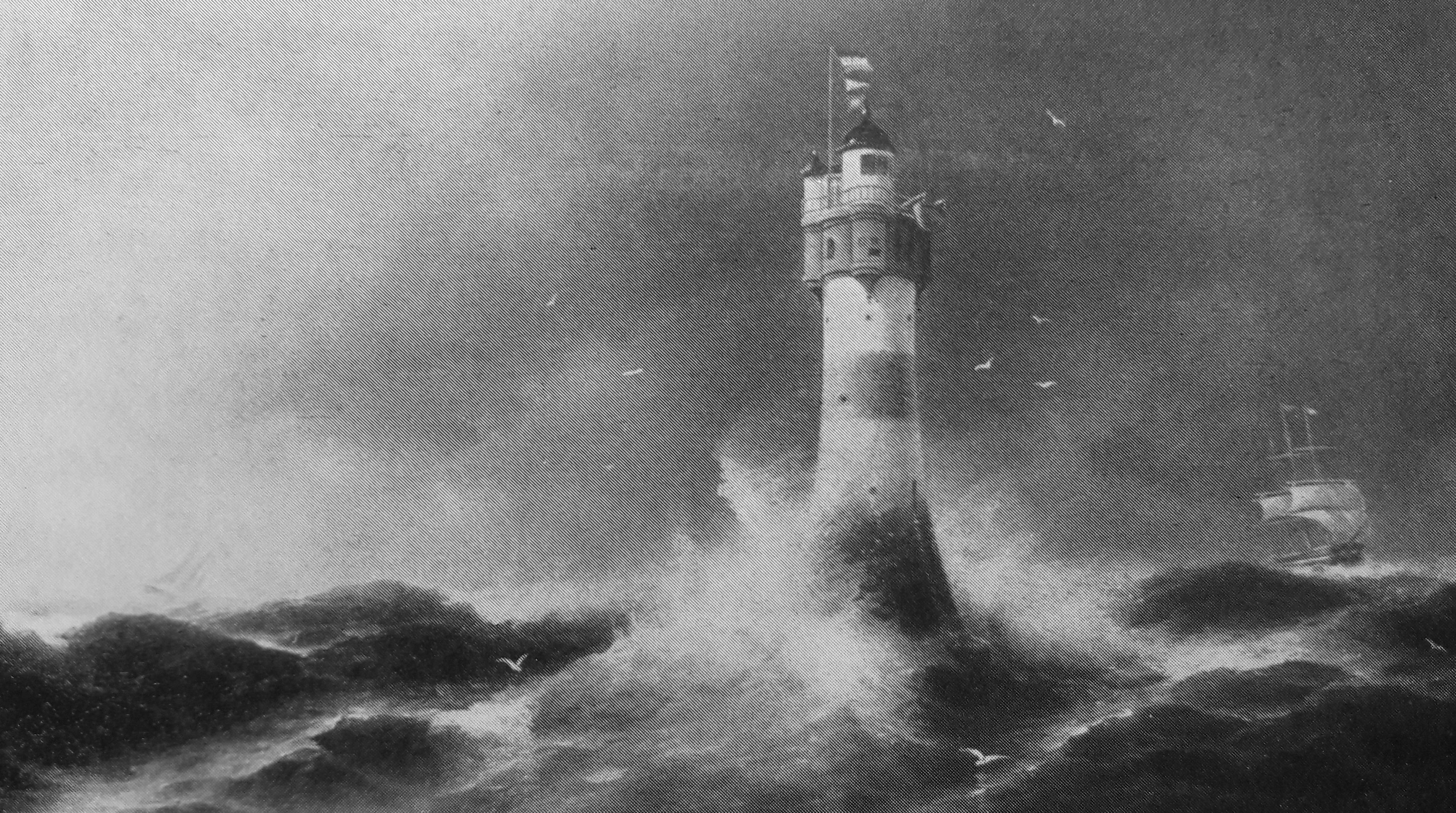 Lightouse Harkort 1885